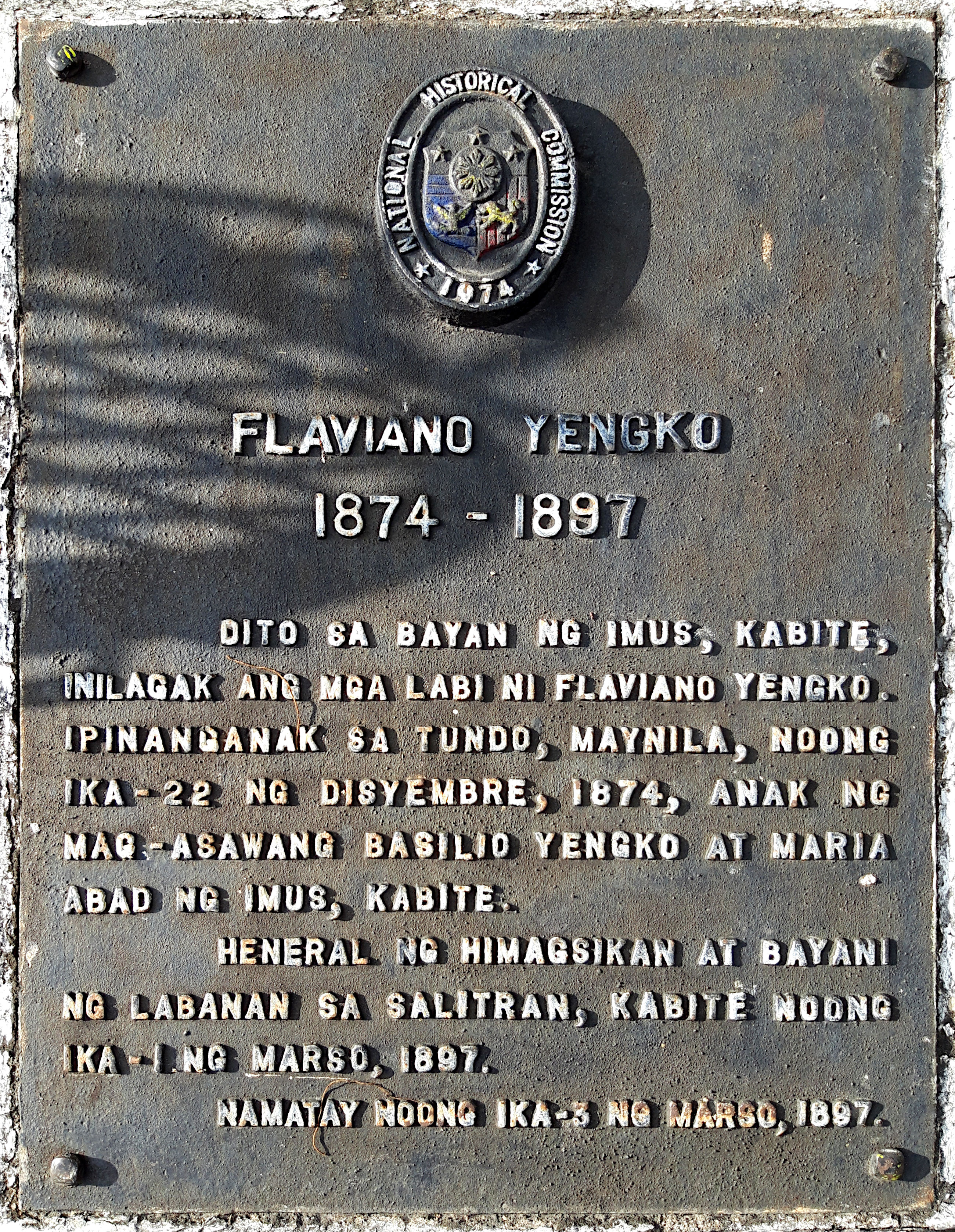 Historical marker installed by the Philippines' National Historical Commission for Gen. Flaviano Yengko at the intersection of Gen. Yengco Street and Gen. E. Topacio Street in Imus, Cavite, Philippines.